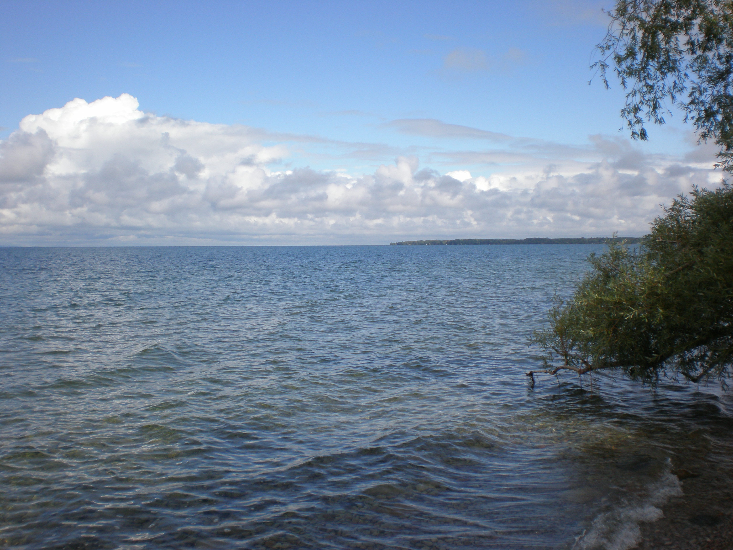 Lake Simcoe in Southern Ontario